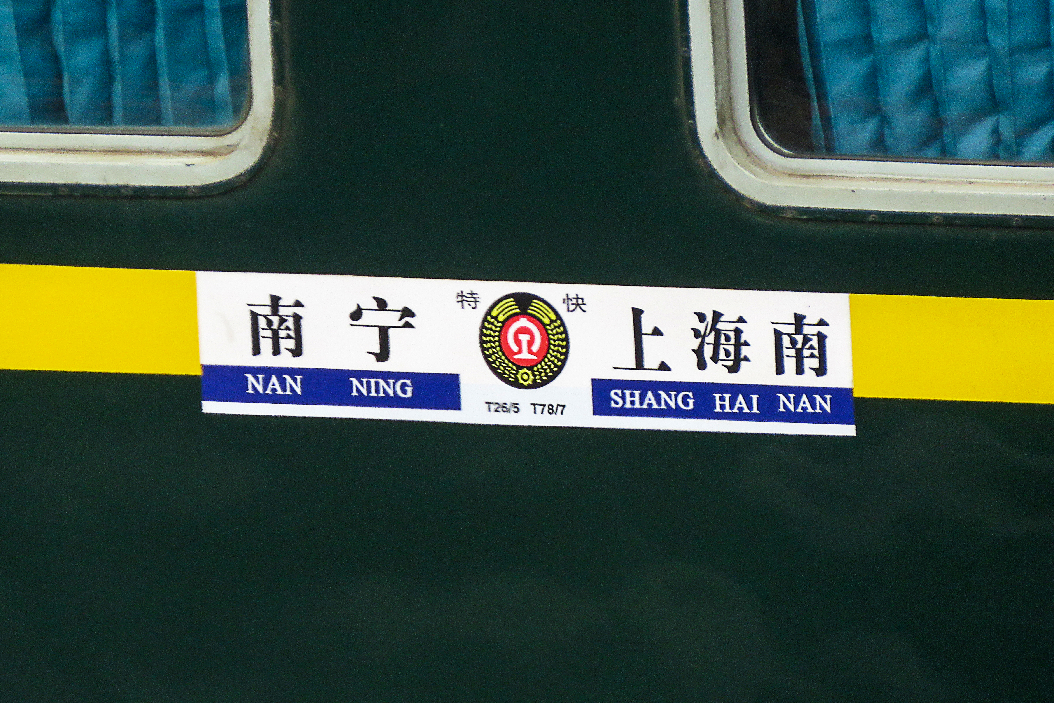 Screwed up...